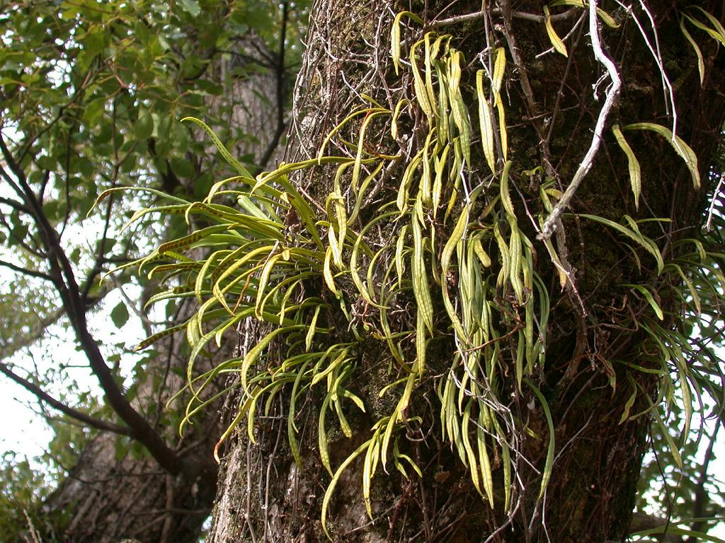 Lepisorus thunbergiana (Japanese name;Nokisinobu) Date;2007,1,27.Shirahama town,Wakayama Pref. Japan Author;Keisotyo